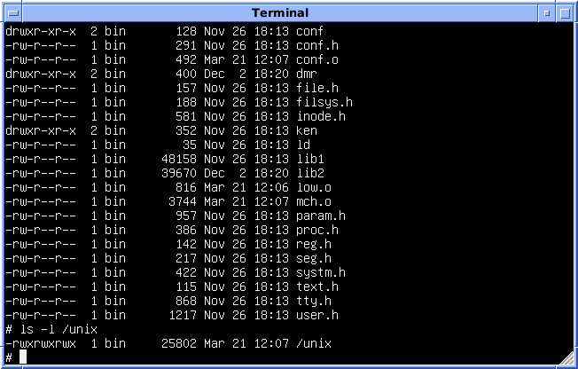 Version 5 Unix for the PDP-11, running in the SIMH PDP-11 simulator. Browsing "/usr/sys", where we can see source code and two directories for separating C source code being written by Dennis Ritchie ("dmr") and Ken Thompson ("ken").